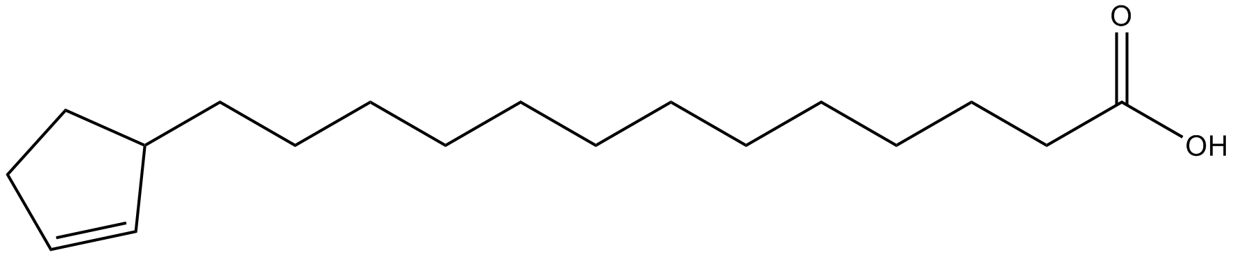 Chaulmoogric acid structure